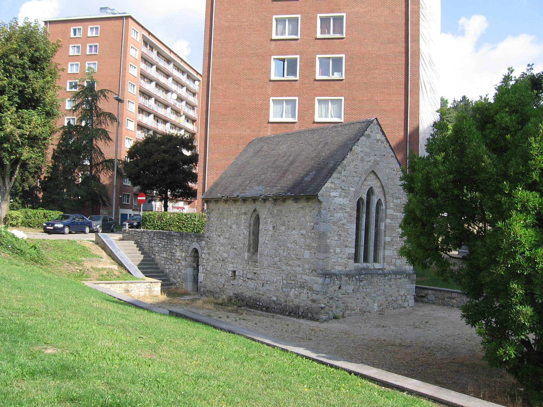 The Hastimoulin chapel at Saint-Servais, a suburb of the town of Namur (Belgium)